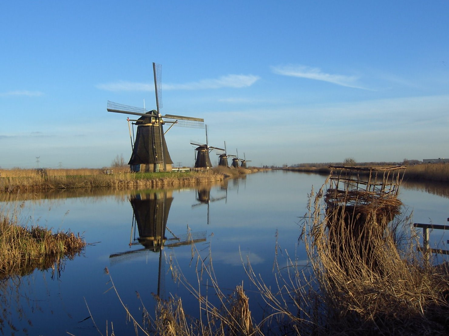 See the original image